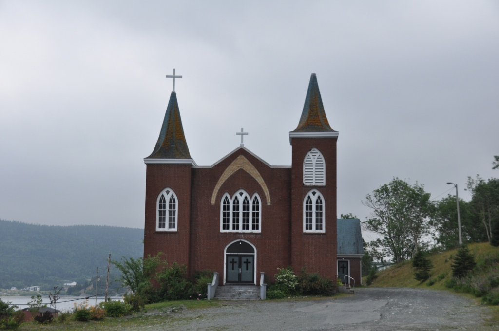 Immaculate Conception Church and Grounds Municipal Heritage Site, Cape Broyle, Newfoundland.